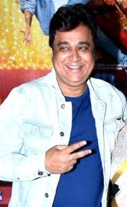 Actors Manurishi Chadha and Sunita Rajwar at the special screening of Shubh Mangal Zyada Saavdhan